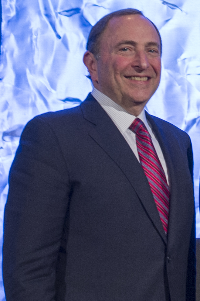 NHL commissioner Gary Bettman 20161109 - NHL Owners Meeting